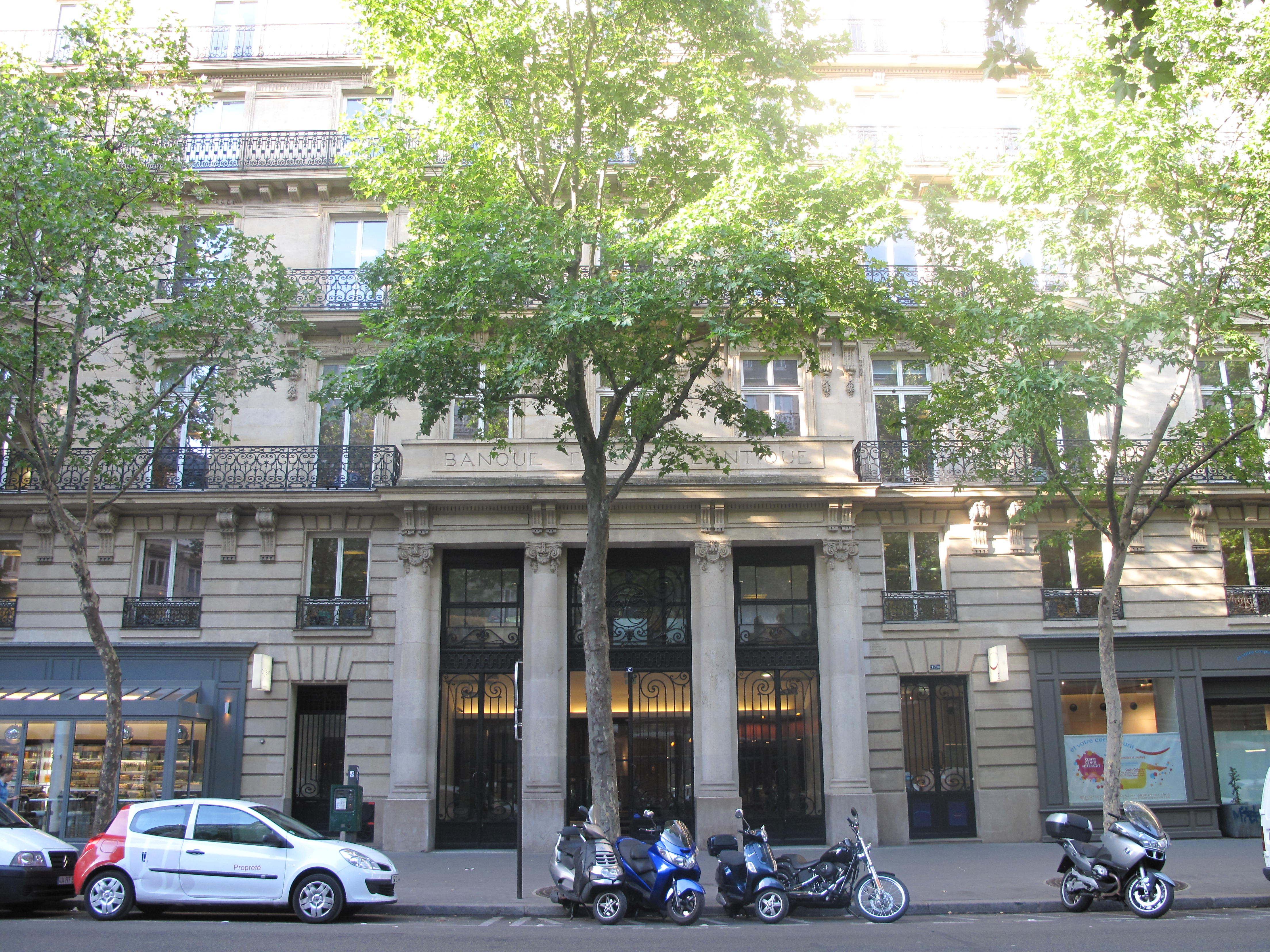 17 Boulevard Haussmann, Paris 9th arr. Formerly the head office of the French bank Banque Transatlantique and the head office of the French company Danone.